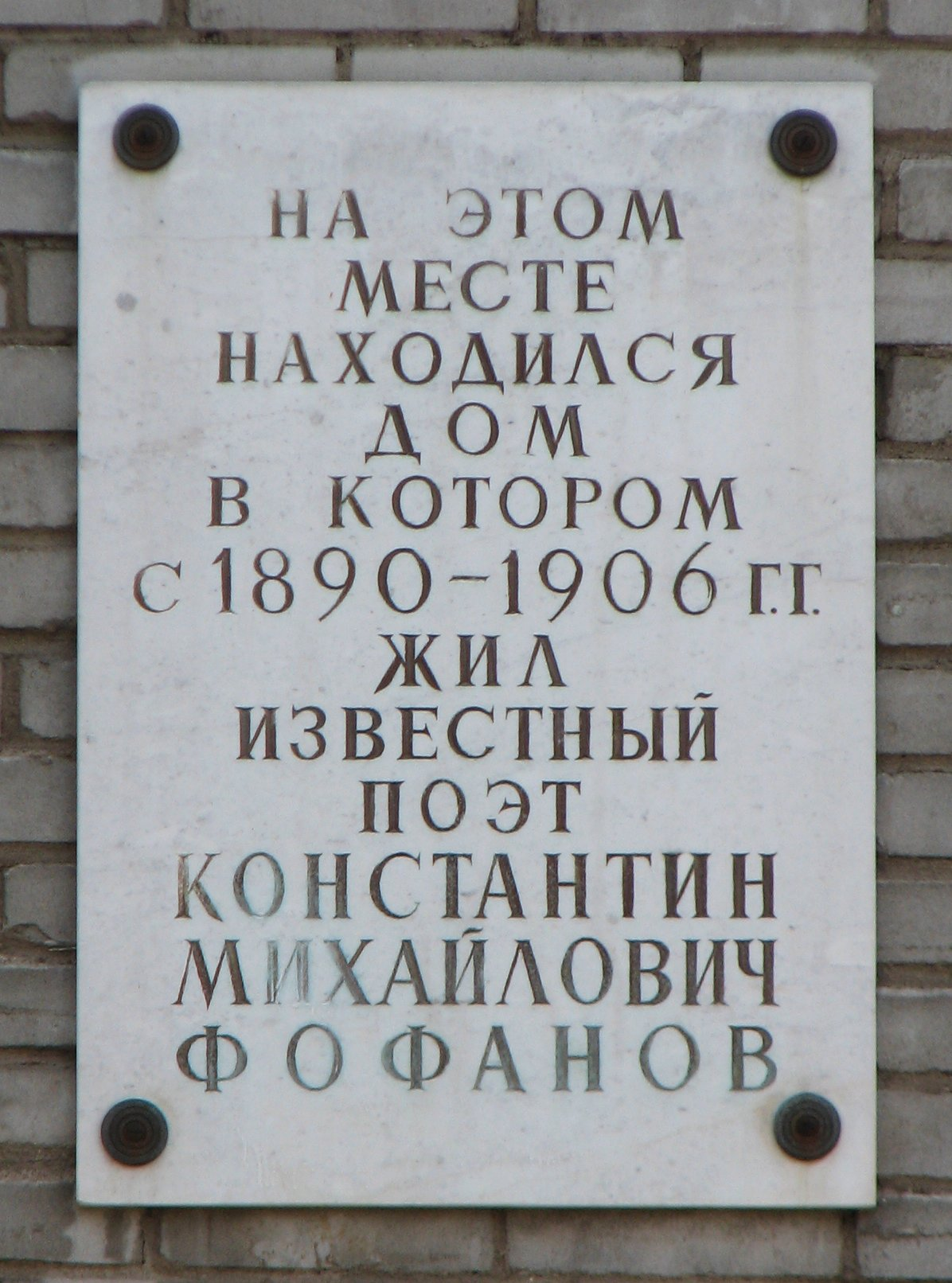 Plaque dedicated to Konstantin Fofanova, at Gatchina, Russia